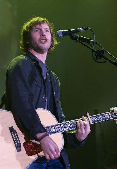 James Blunt at Reading Rivermead 23rd Jan 2008